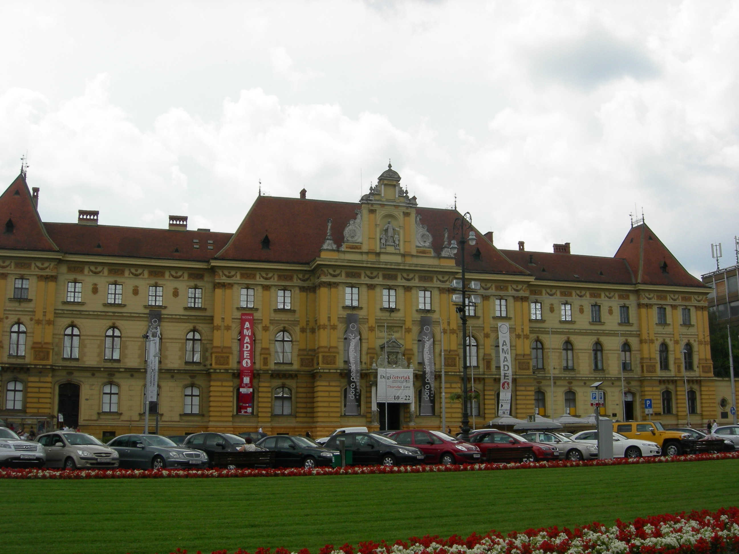 Arts and Crafts Museum in Zagreb.